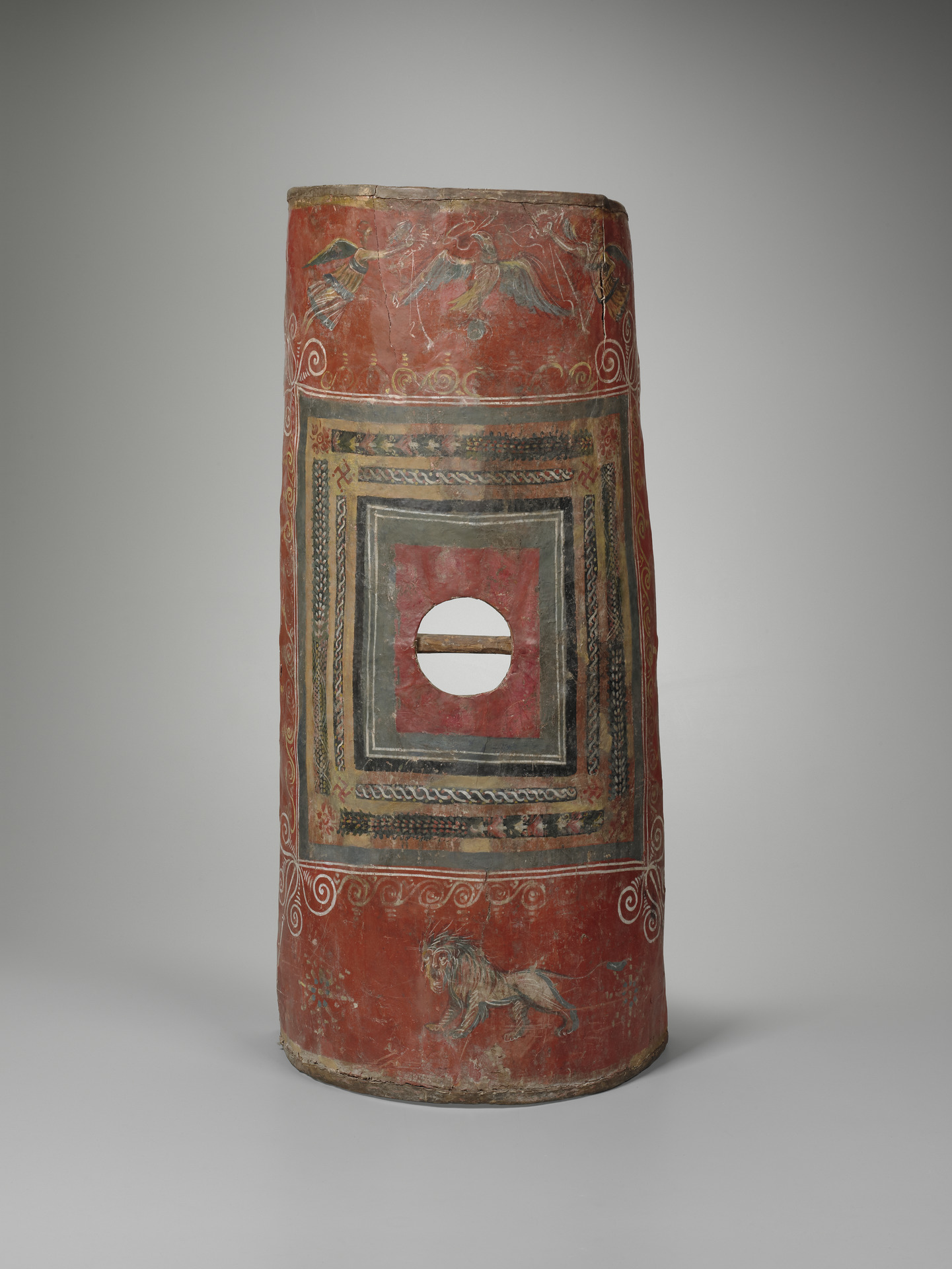 This shield is the only known surviving example of the examples known as a scutum. It was found at Dura Europos